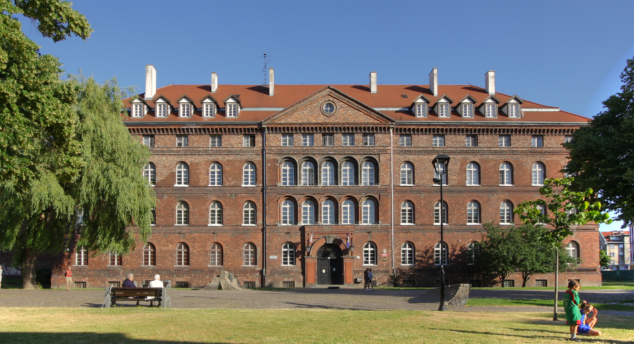 Post office in Gdansk/Danzig, location of the Defense of the Polish Post Office in Danzig